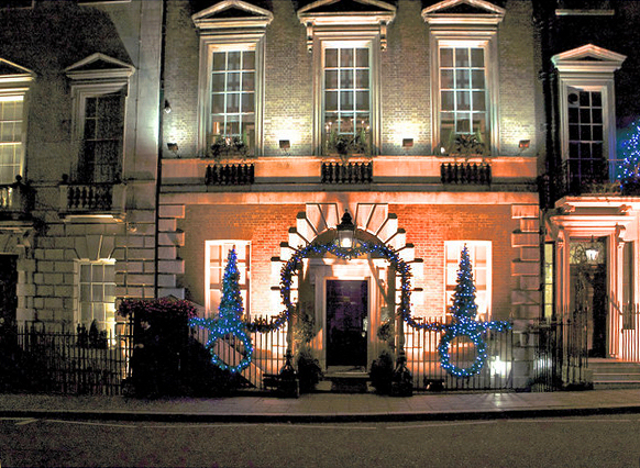 One of London's most exclusive private clubs.